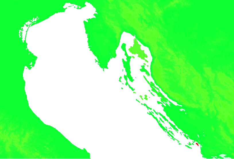 Island of Croatia - Croatia - Zlarin.PNG